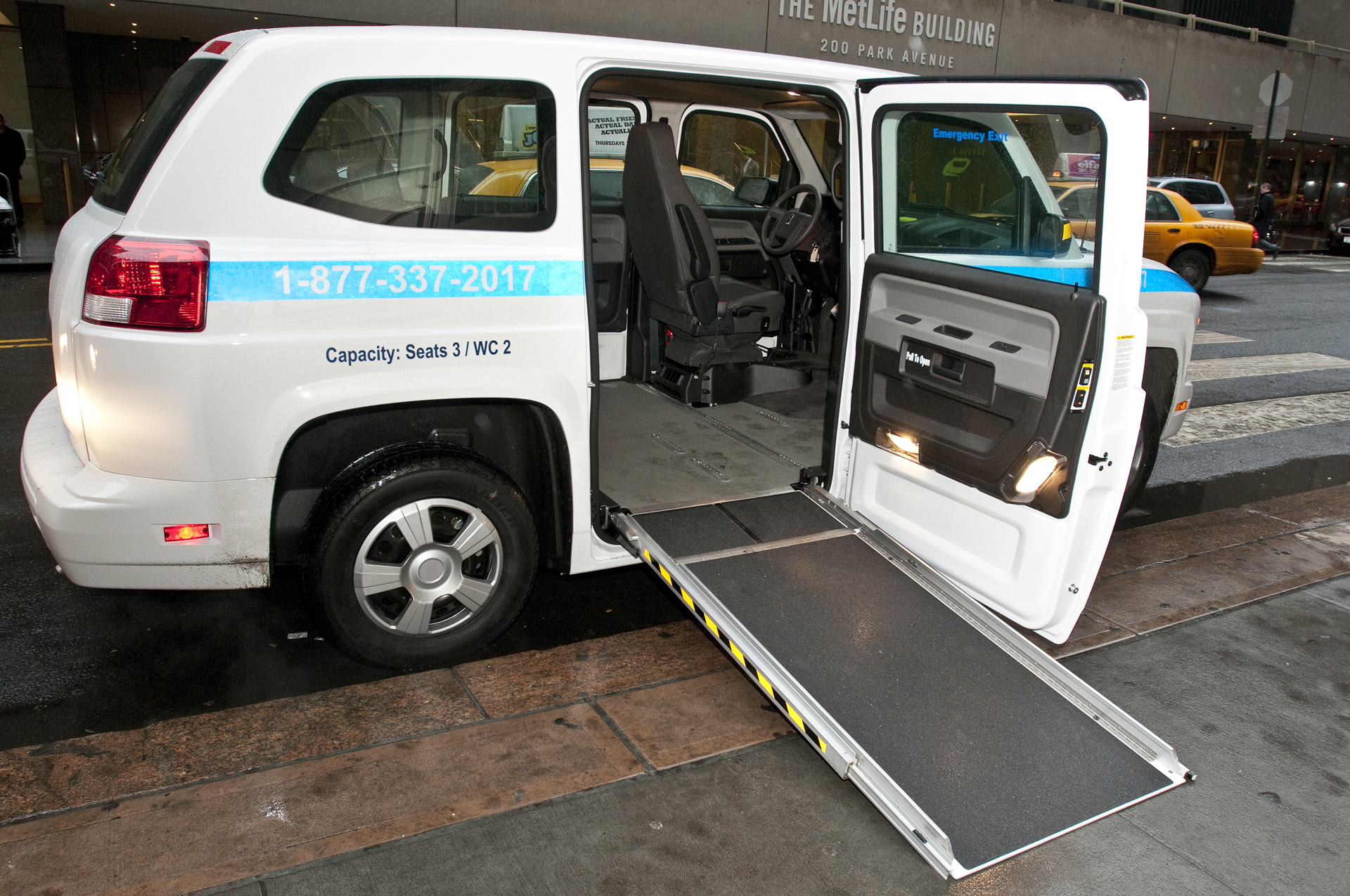 The MTA has purchased 30 new MV-1 vans for use by the Paratransit Division in order to determine their suitability as lower-cost replacement vehicles for older Access-A-Ride vans. They are the first purpose-built vehicle for both ambulatory and mobility impaired customers to meet ADA vehicle guidelines. It seats up to four passengers with a dedicated space for a wheelchair or scooter situated next to the operator. 15 are powered by gasoline and 15 are powered by compressed natural gas. Photos by Metropolitan Transportation Authority / Patrick Cashin.